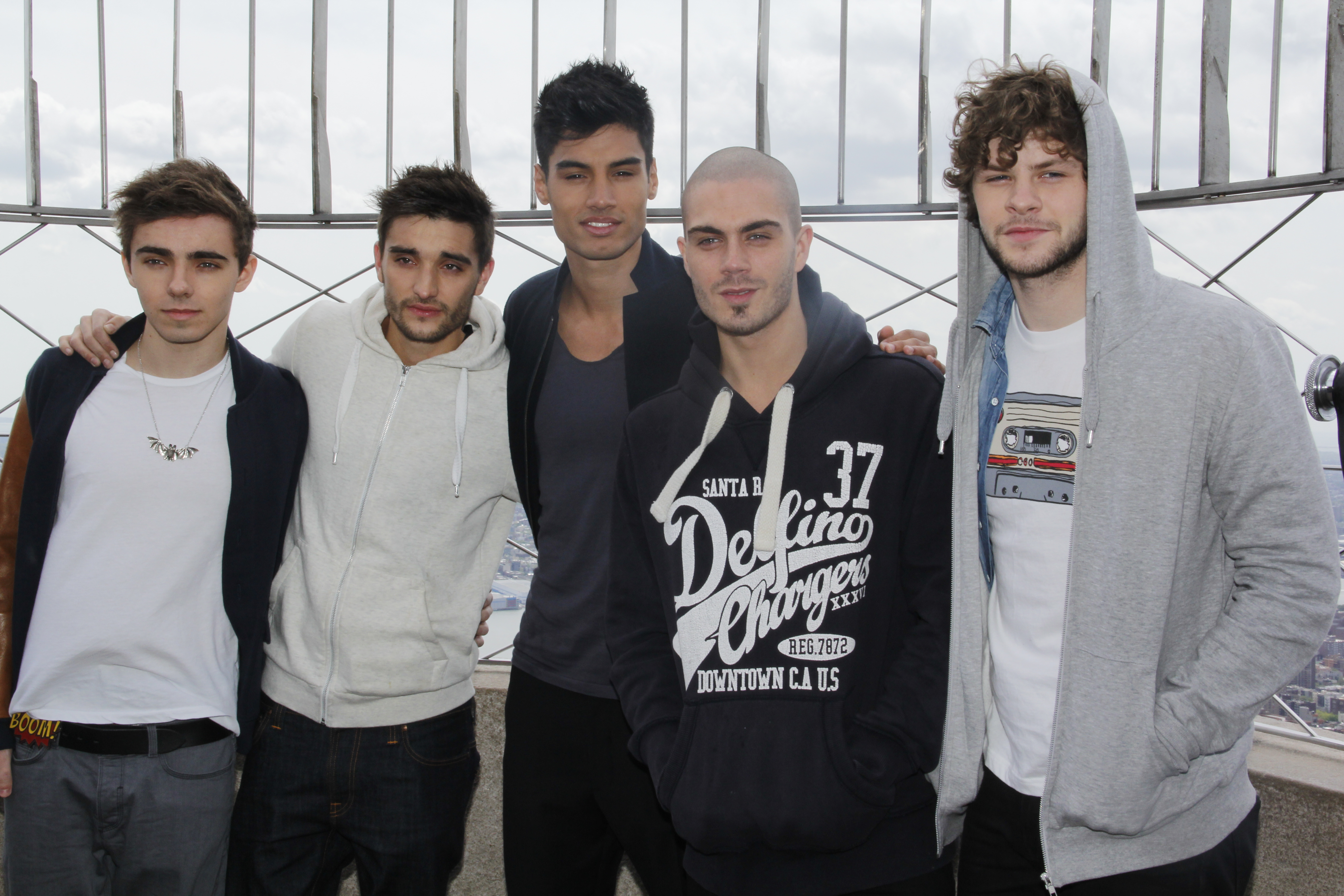 The Wanted, Empire State Building Observation Deck, April 24th 2012, New York City. From left: Nathan Skyes, Tom Parker, Siva Kaneswaran, Max George and Jay McGuiness.